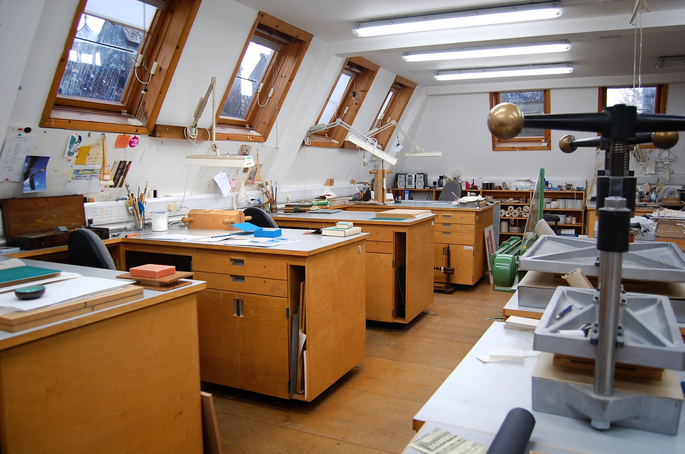 Conservation of Books workshop West Dean College